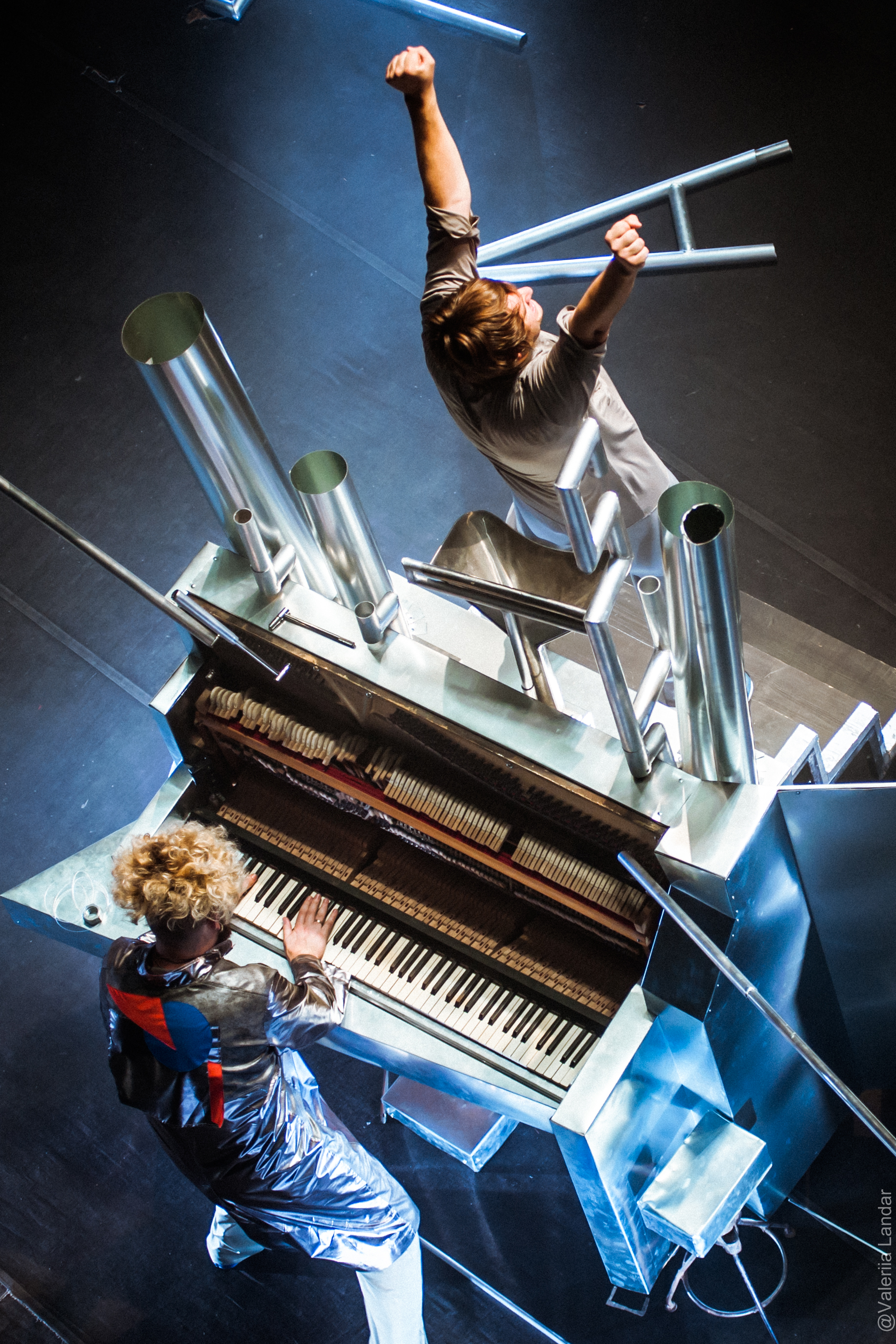 Opera-dystopia GAZ, II ACT.Manifesto, Photo Valeriia Landar